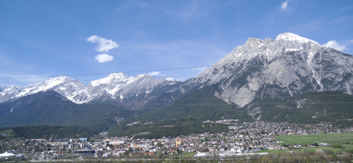 Telfs and the Mieminger mountains, the Hohe Munde (2662 m) at the right.